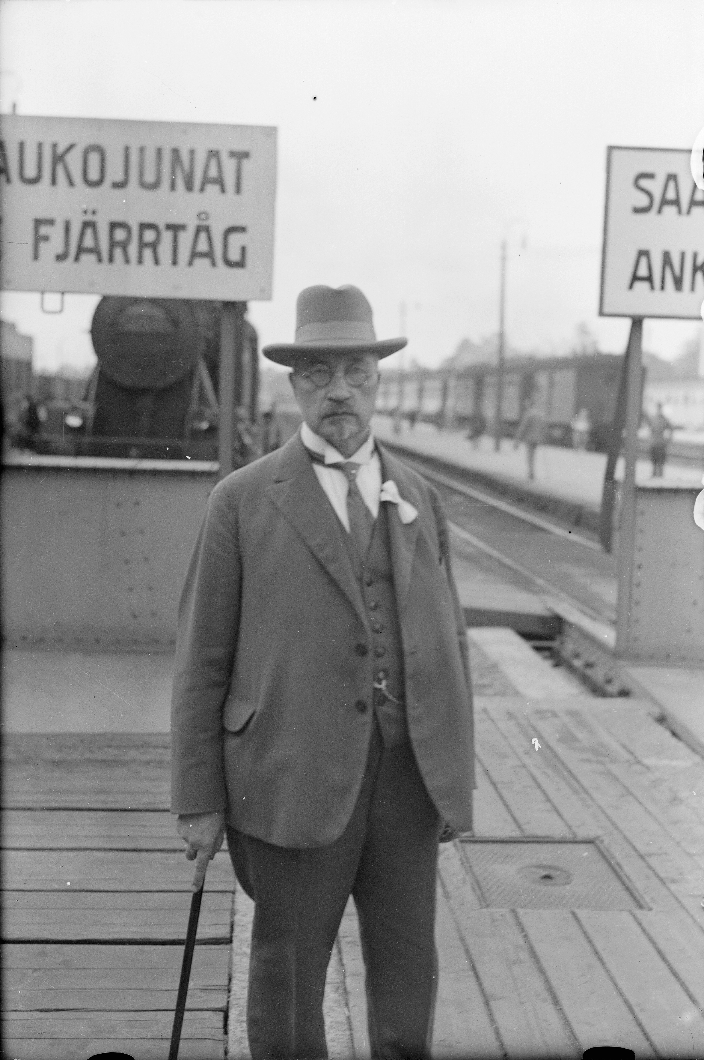 Photograph of the Finnish priest Juho Heikki Tunkelo (1873–1948).